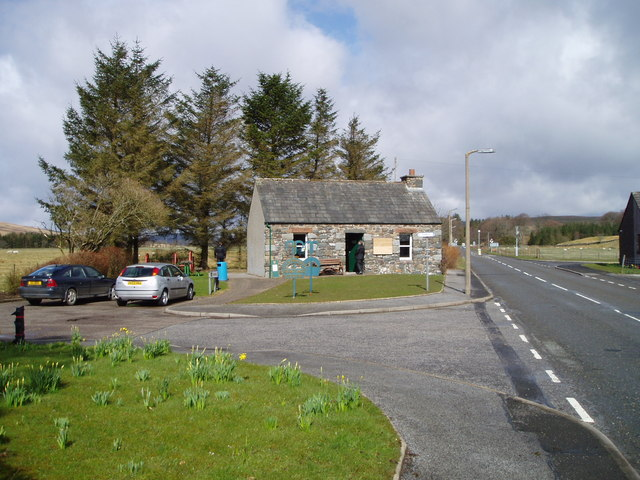 Carsphairn Heritage Centre, Carsphairn, Dumfries and Galloway, Scotland